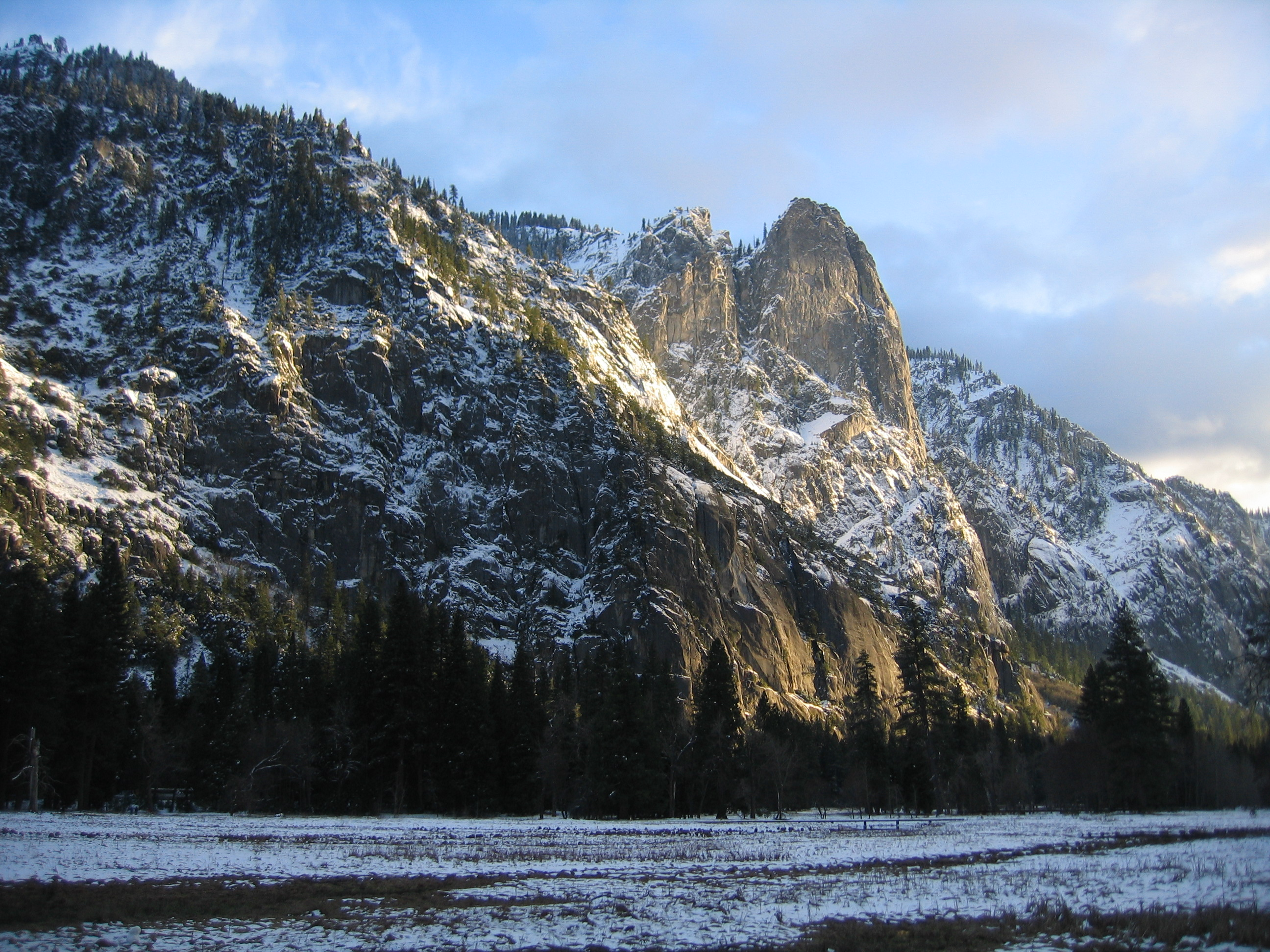 Sentinel Rock at sunset in winter